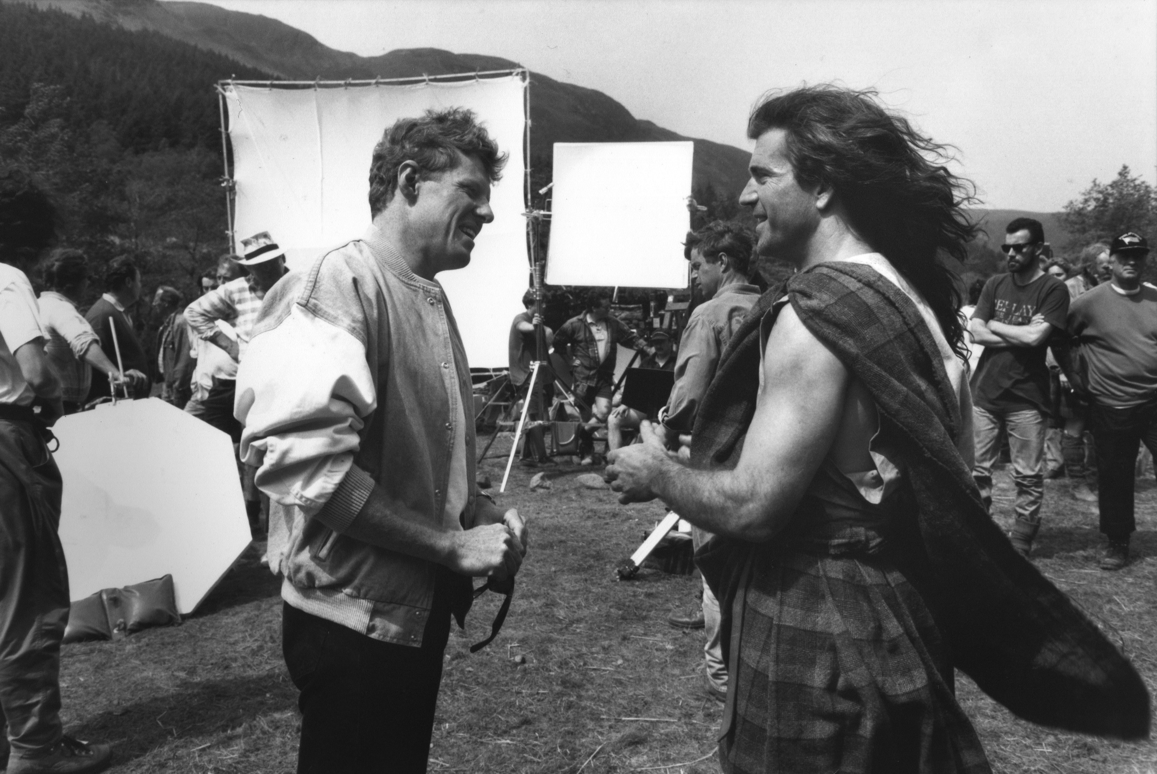 Scott Neeson on the set of Braveheart, 1995